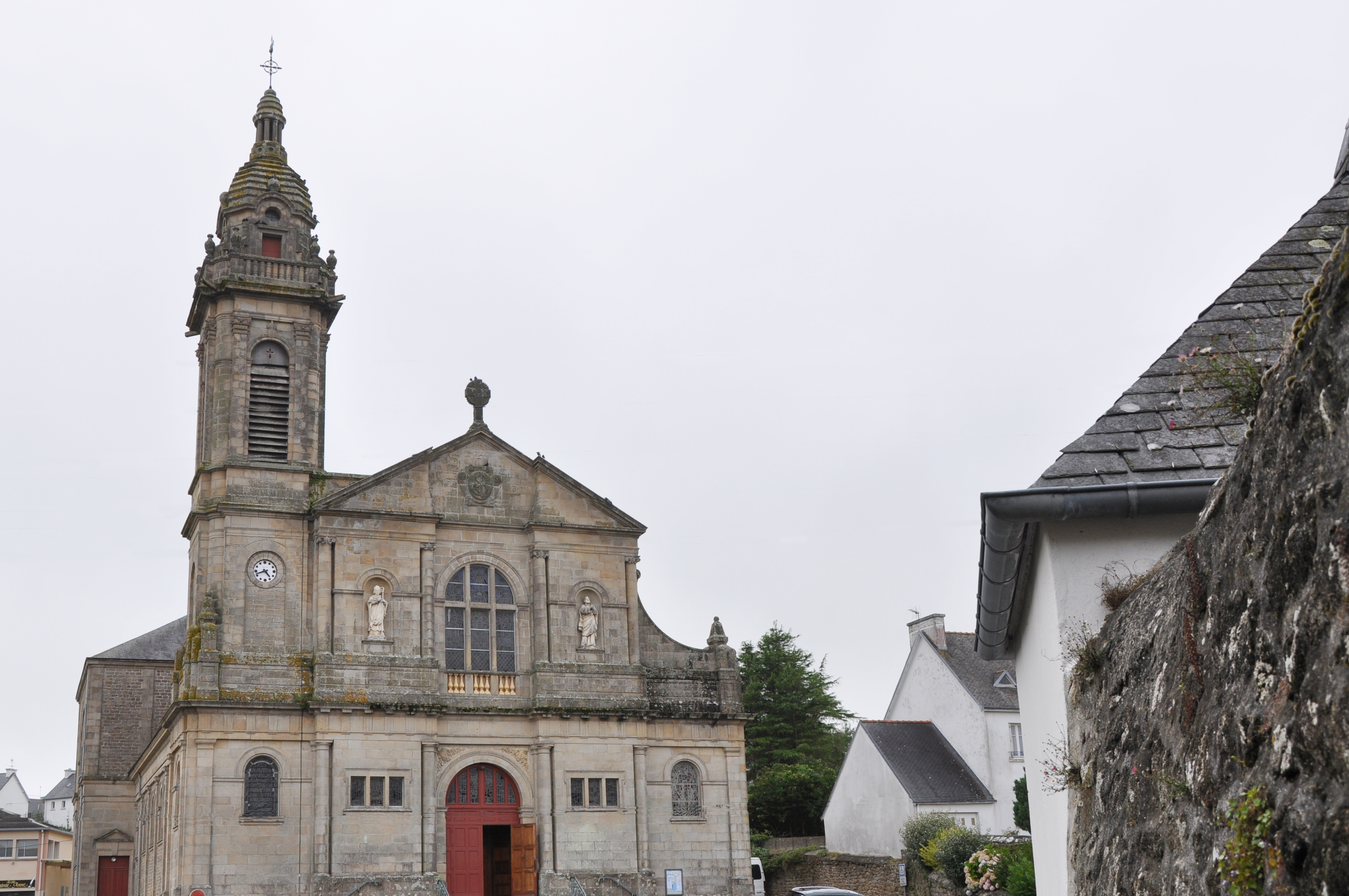 Church in Audierne (France, Brittany)